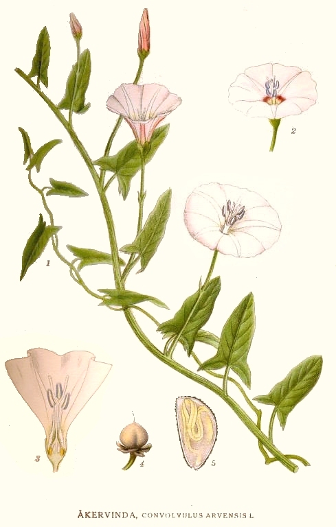 Original Description Åkervinda, Convolvulus arvensis L.